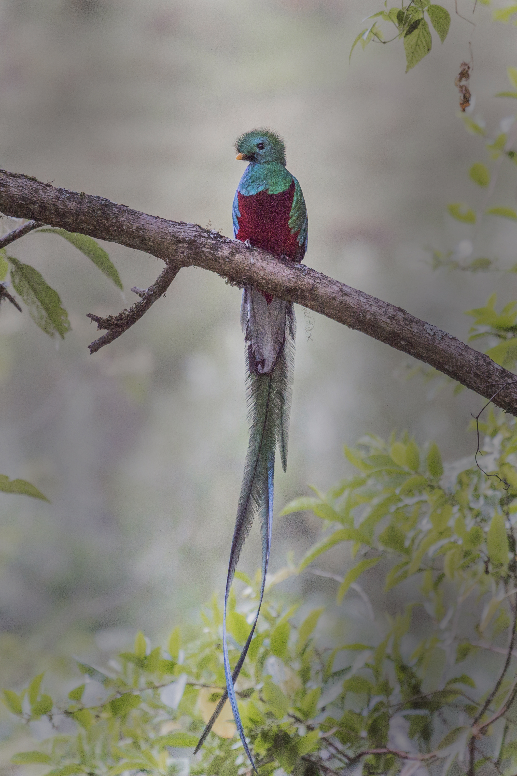 Respledent Quetzel male, Costa Rica 2016